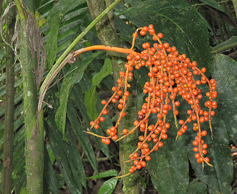 Jatatilla fruit will turn black when mature. Found from Mexico to Bolivia. In context at